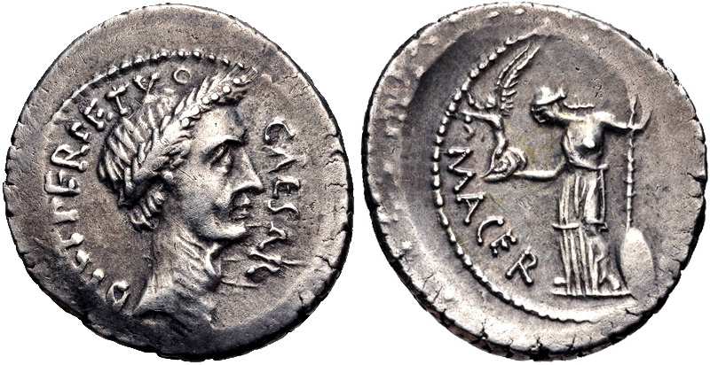 Julius Caesar. February-March 44 BC. AR Denarius (19mm, 3.80 g, 2h). Rome mint; Publius Sepullius Macer, moneyer. Wreathed head right; CAESAR DICT PERPETVO around Venus Victrix standing left, holding crowning Victory and scepter; to lower right, round shield set on ground; [P · SEPVLLIVS] MACER around. Crawford 480/10; Alföldi Type VIII, 24-6 (A12/R3); CRI 107a; Sydenham 1073; Kestner -; BMCRR Rome 4169-71; RSC 38. Near EF, toned, reverse slightly off center. Excellent silver quality. Bold portrait.